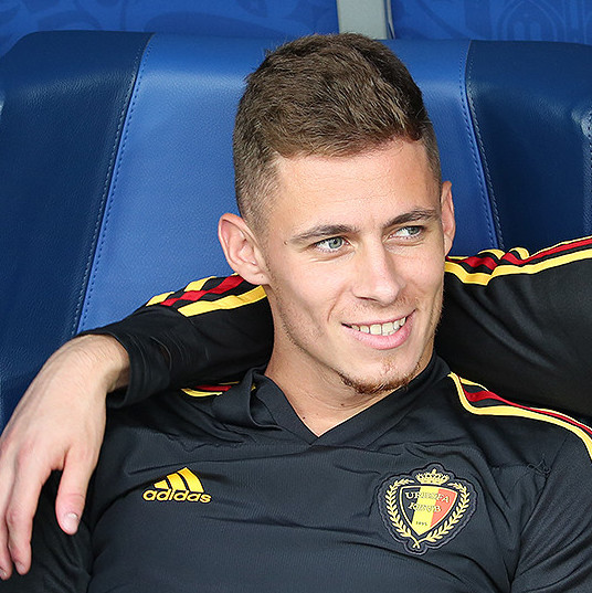 Januzaj and Hazard at the 2018 World Cup